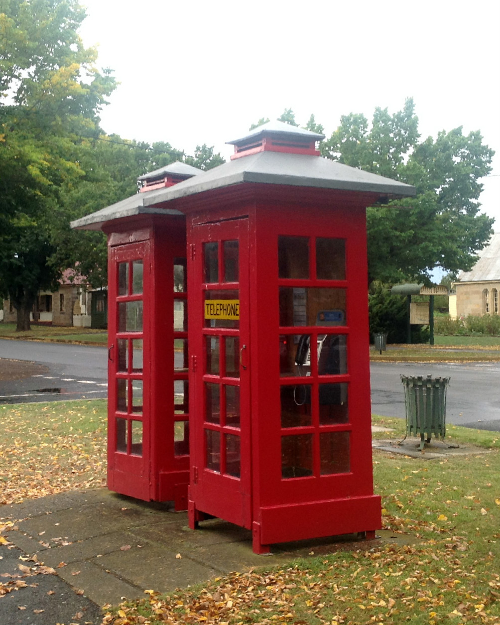 Fake Red telephone in Ross, Tasmania